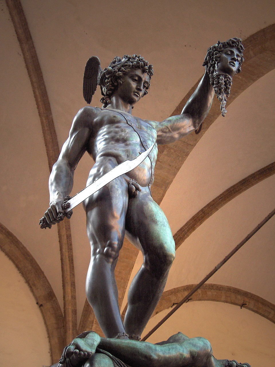 Perseus by Benvenuto Cellini, Loggia dei Lanzi, Florence, Italy